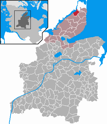 Locator maps of municipalities in Schleswig-Holstein - District Rendsburg-Eckernförde